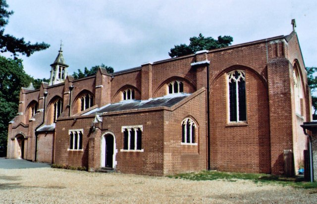 St Michael and All Angels parish church, Bassett Avenue, Southampton, Hampshire, seen from the southeast